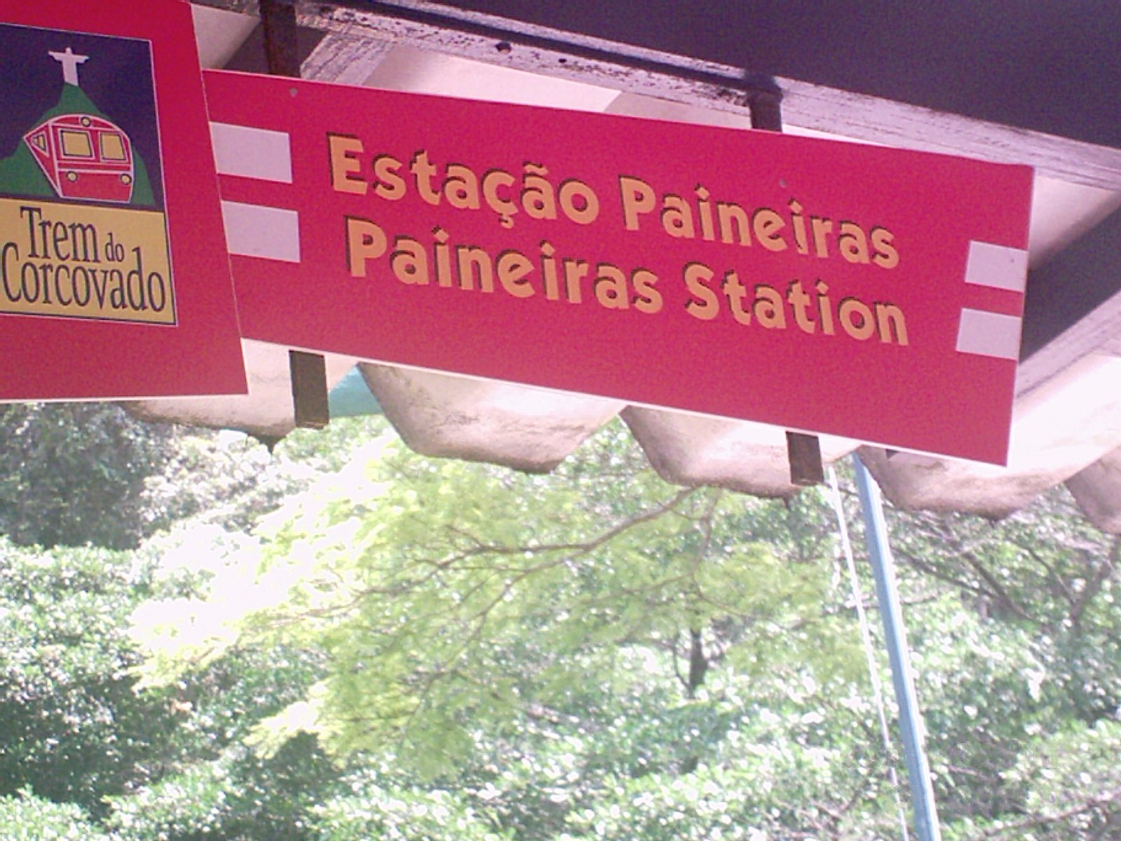 A sign in Paineiras railway estation.